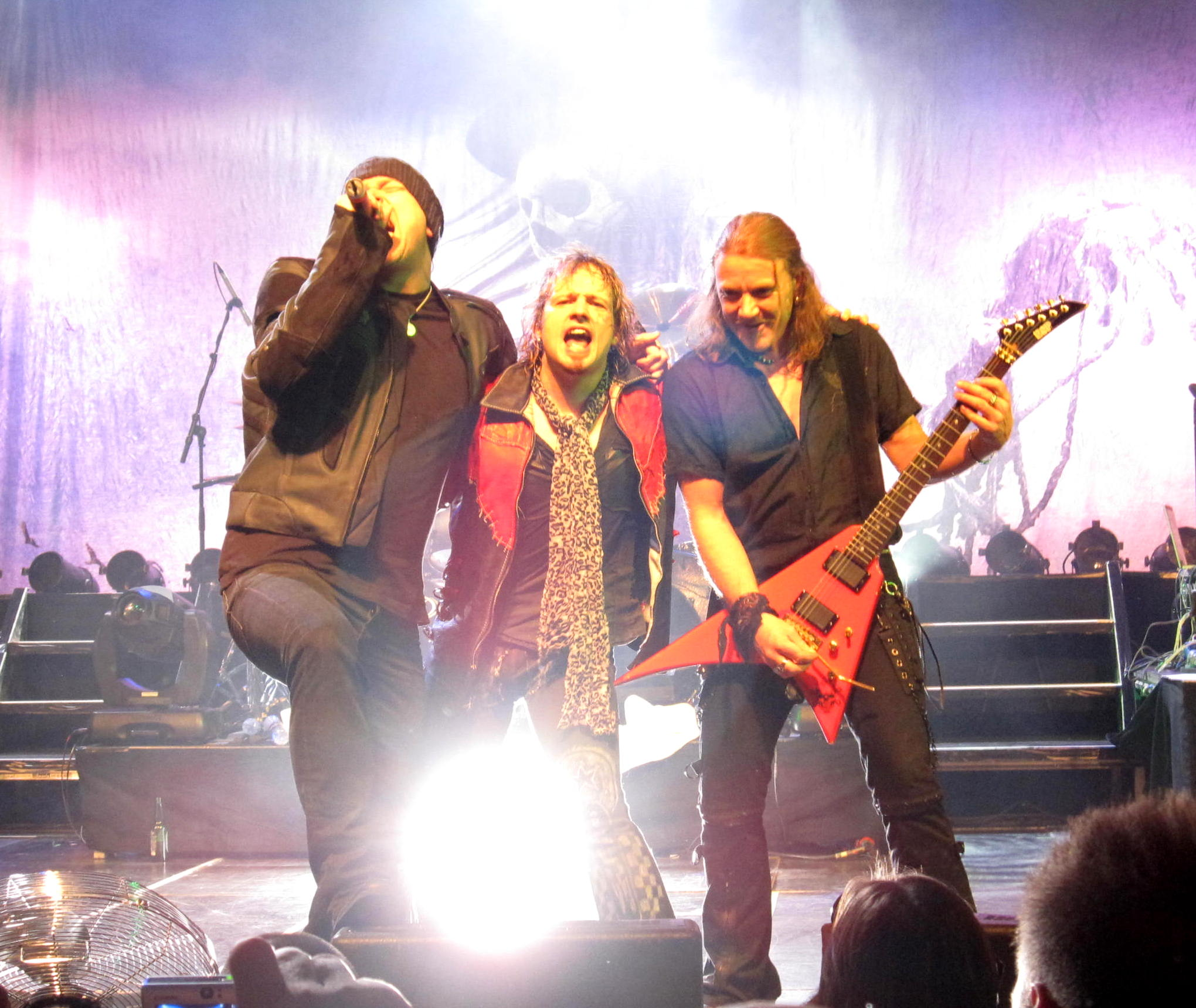 Michael Kiske, Tobias Sammet and KaiHansen performing together with Avantasia in Stockholm on 2010-12-05